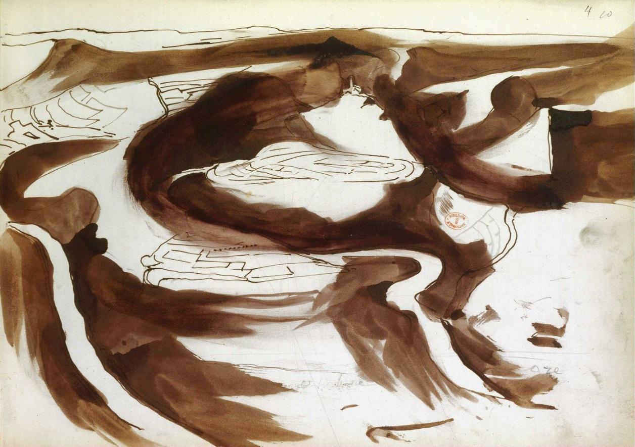 This drawing by Victor Hugo represents the Our valley around the village of Bivels north of Vianden (Luxembourg), one can see the castle of Falkenstein on a hill in the background. 1871. The drawing can be seen at a view point half way up the Mont Saint-Nicolas above Bivels exactly at the point where Victor Hugo made this drawing, the darker part being painted with coffee grounds. Victor Hugo regularly used grinds of black coffee to enhance his drawings.